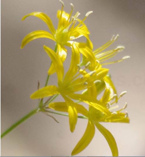 Bloomeria aurea — Golden stars. Native plant of California chaparral and woodlands and other habitats.